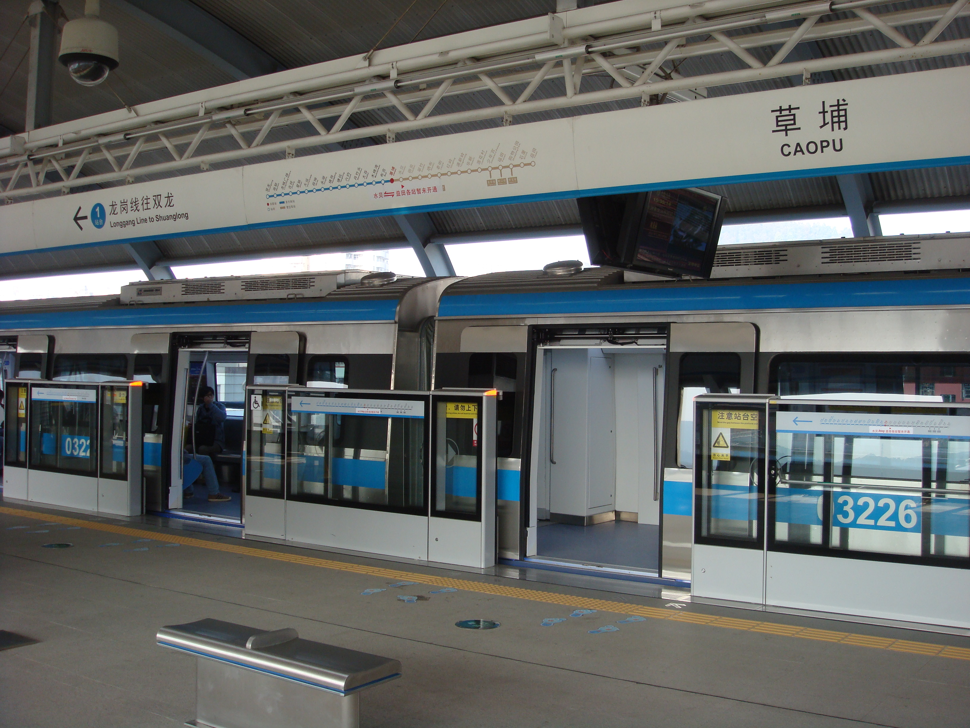 Caopu Station of Longgang Line, Shenzhen Metro.